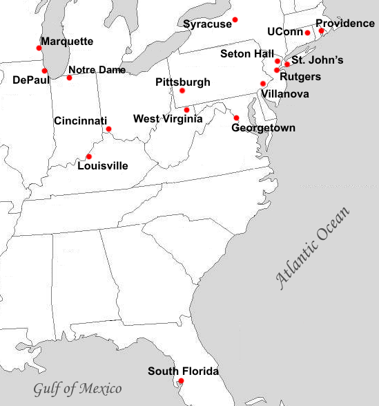 Locations of Big East Conference full member institutions. Personal creation in Photoshop; All rights released to the public to do whatever they want with it.